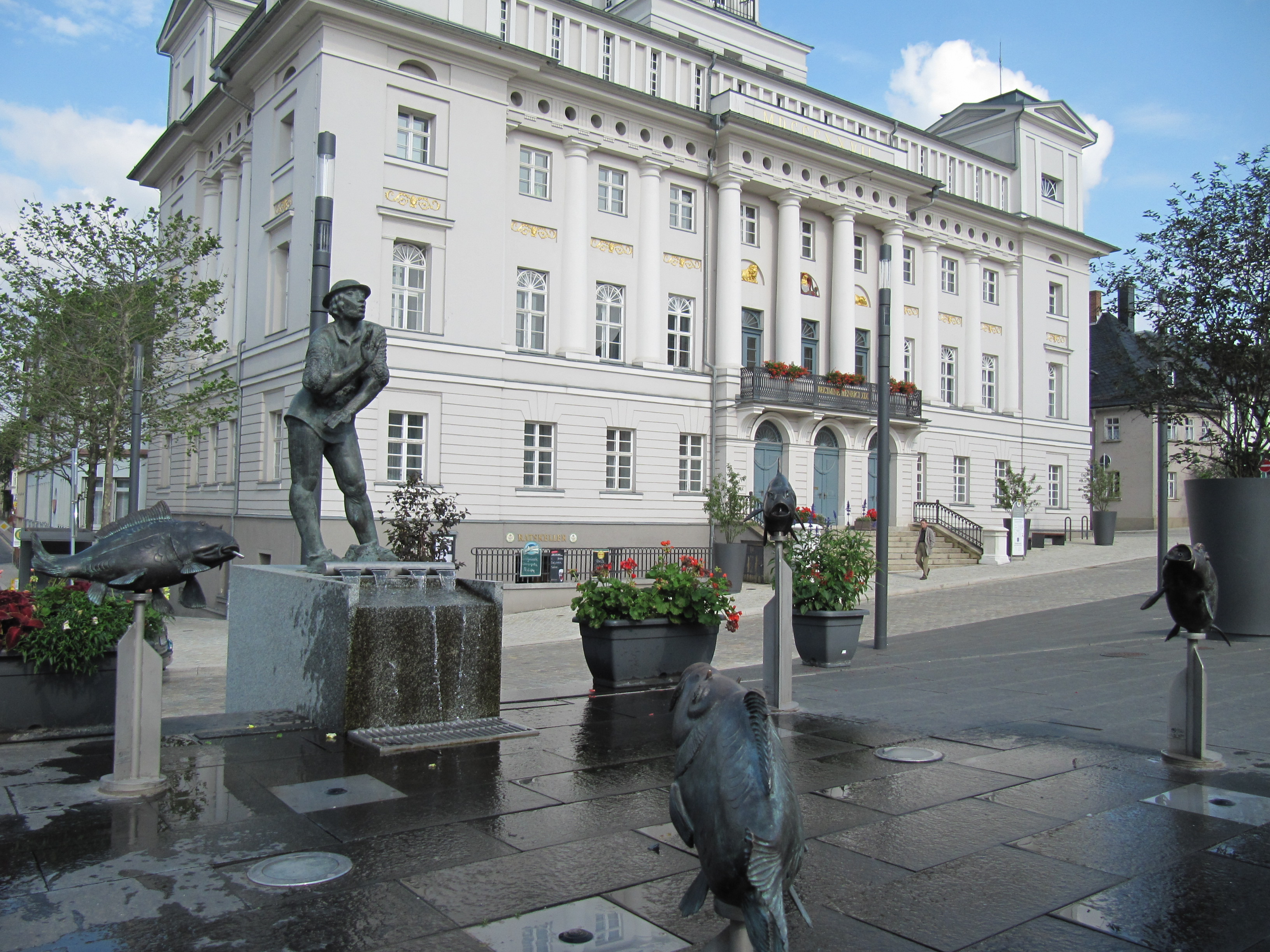 Karpfenpfeifer in front of the town hall of Zeulenroda-Triebes, Germany